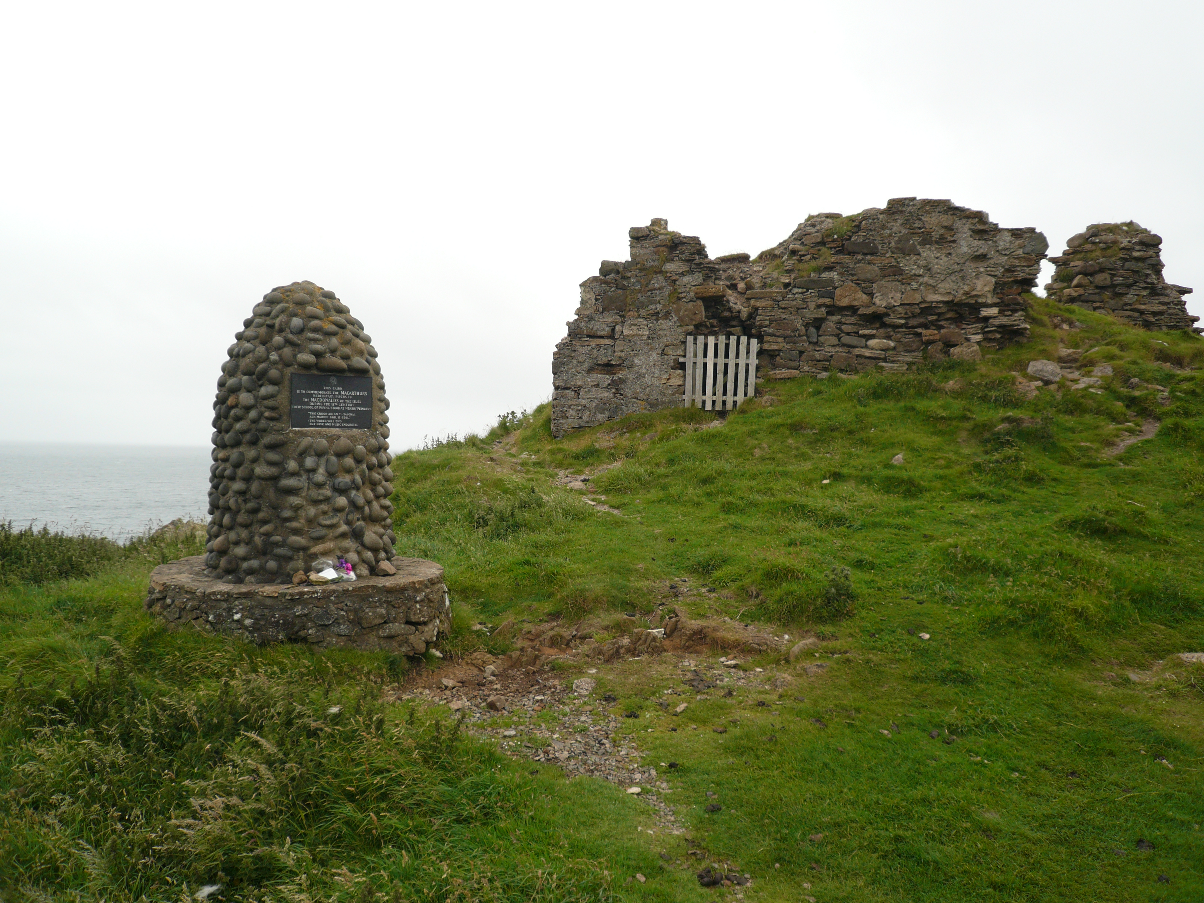 MacArthur cairn in Duntulm, Skye, Scotland. Text reads as follow : “This cairn is to commemorate the MACARTHURS Hereditary pipers to The MACDONALDS of the Isles During the 18th century Their school of piping stood at nearby Peincown ‘Thig crioch air an t-saochal Ach mairidh càol is ceùol.’ (The world will end But love and music endureth.)”